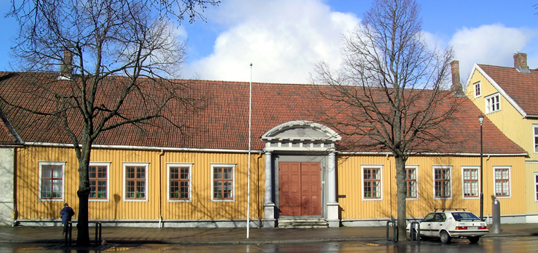 Riding hall, Trondheim, Norway. Built 1805.